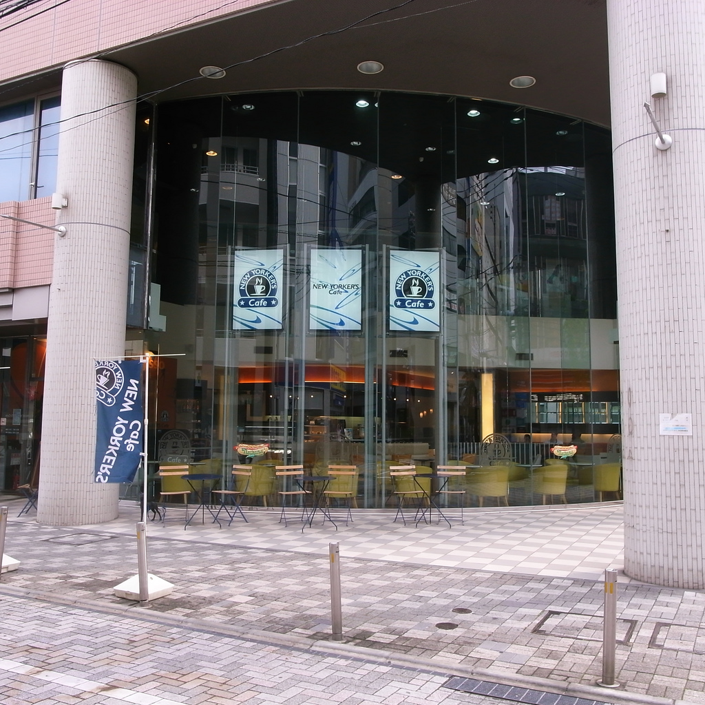 New Yorker's Cafe in Machida